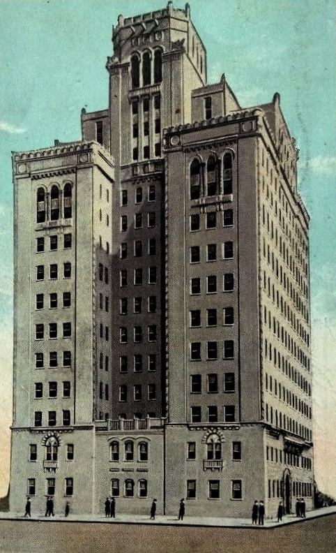 Published by Co-Mo Company Post Cards of Minneapolis in 1922, a view of the "New Clinic" (now called the Mayo Clinic Plummer Building) in Rochester, Minnesota, United States